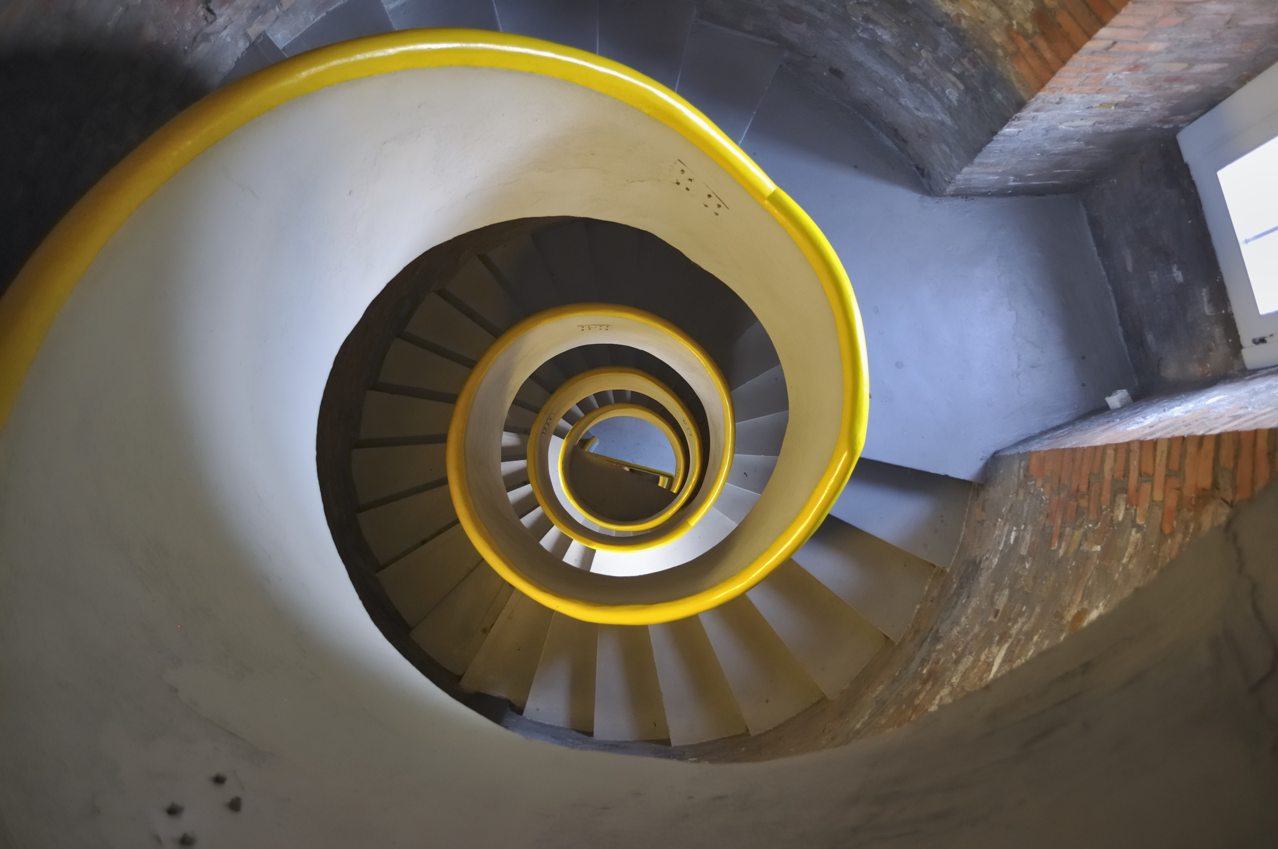 Picture taken in Hel after Wikimania 2010 conference. Circular stairs.